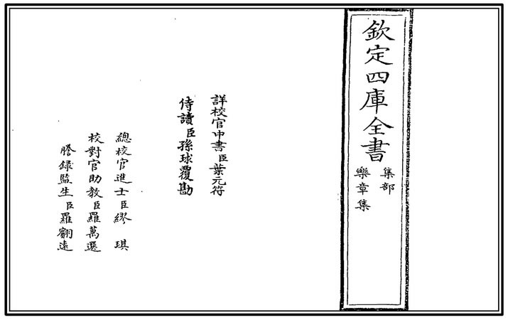 四庫全書本柳永《樂章集》書影